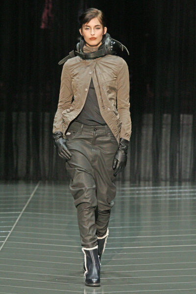 McKey Sullivan, American fashion model, in G-Star Raw